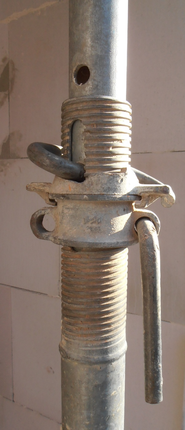 Extendable support beam Verstellmechanismus einer Schalungsstütze (Sprieße)